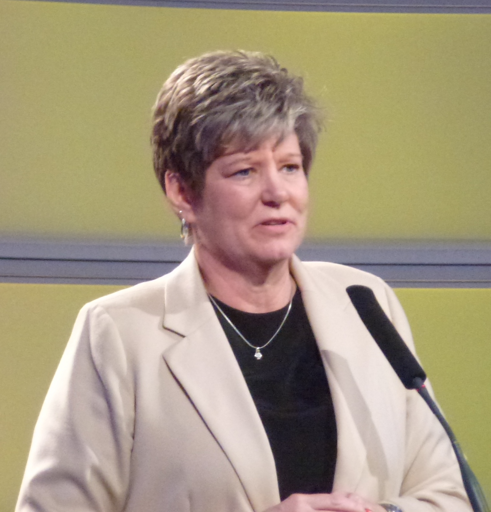 Sue Ramsey head coach of the Ashland University Eagles, and winner of the 2012 Carol Eckman Award accepting the award at the 2102 WBCA Awards ceremony.